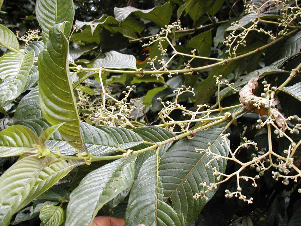 Pauridiantha floribunda (Rubiaceae) from the Dja Faunal Reserve. Photo: B Sonké.